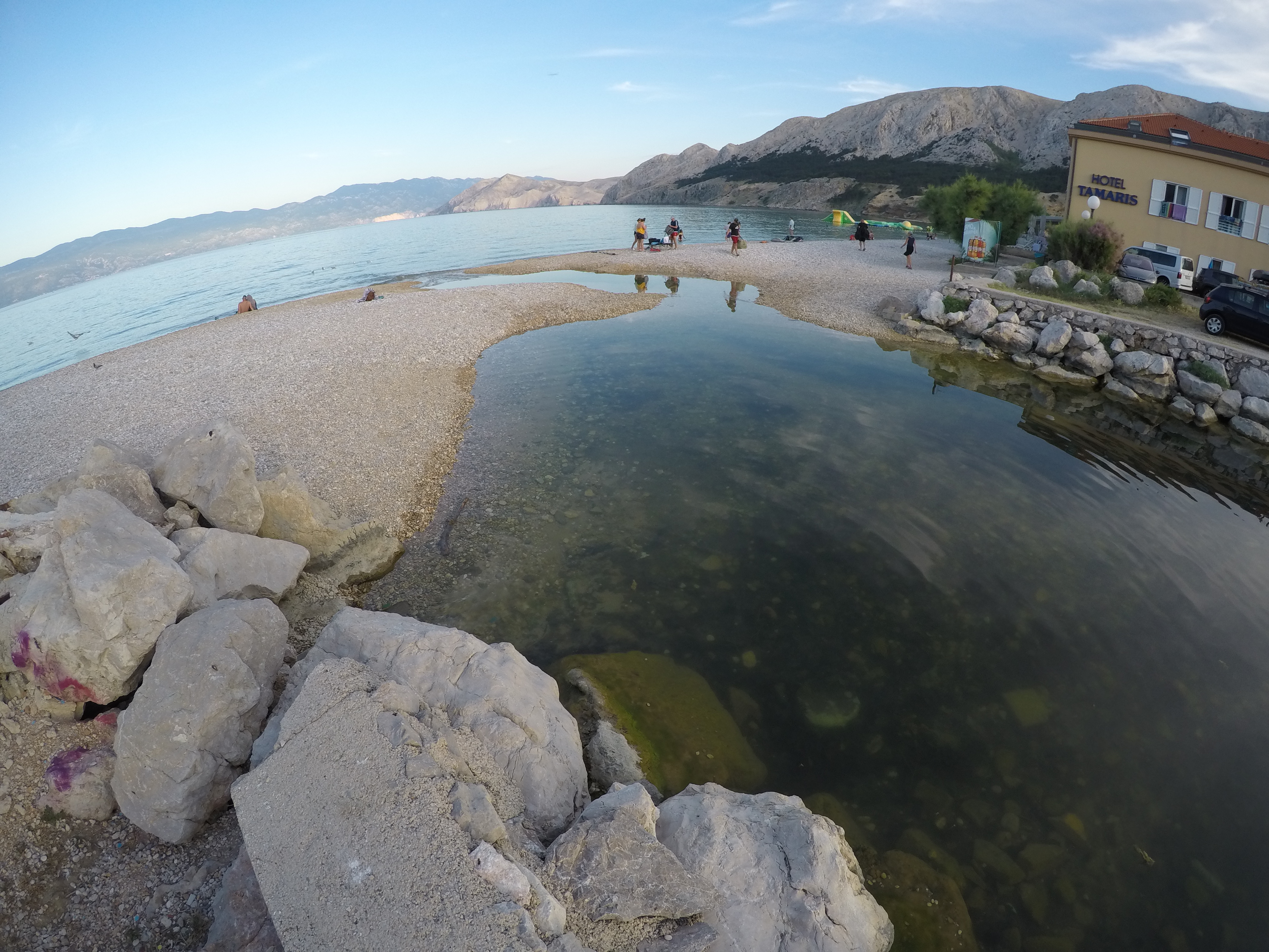 Vela Rika, Krk, Croatia